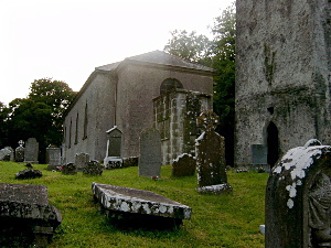 Ardbraccan Church, Co. Meath, Republic of Ireland "No copyright. My photograph, taken on the 29th June 2003. FearÃ‰IREANN 17:22 3 Jul 2003 (UTC)"